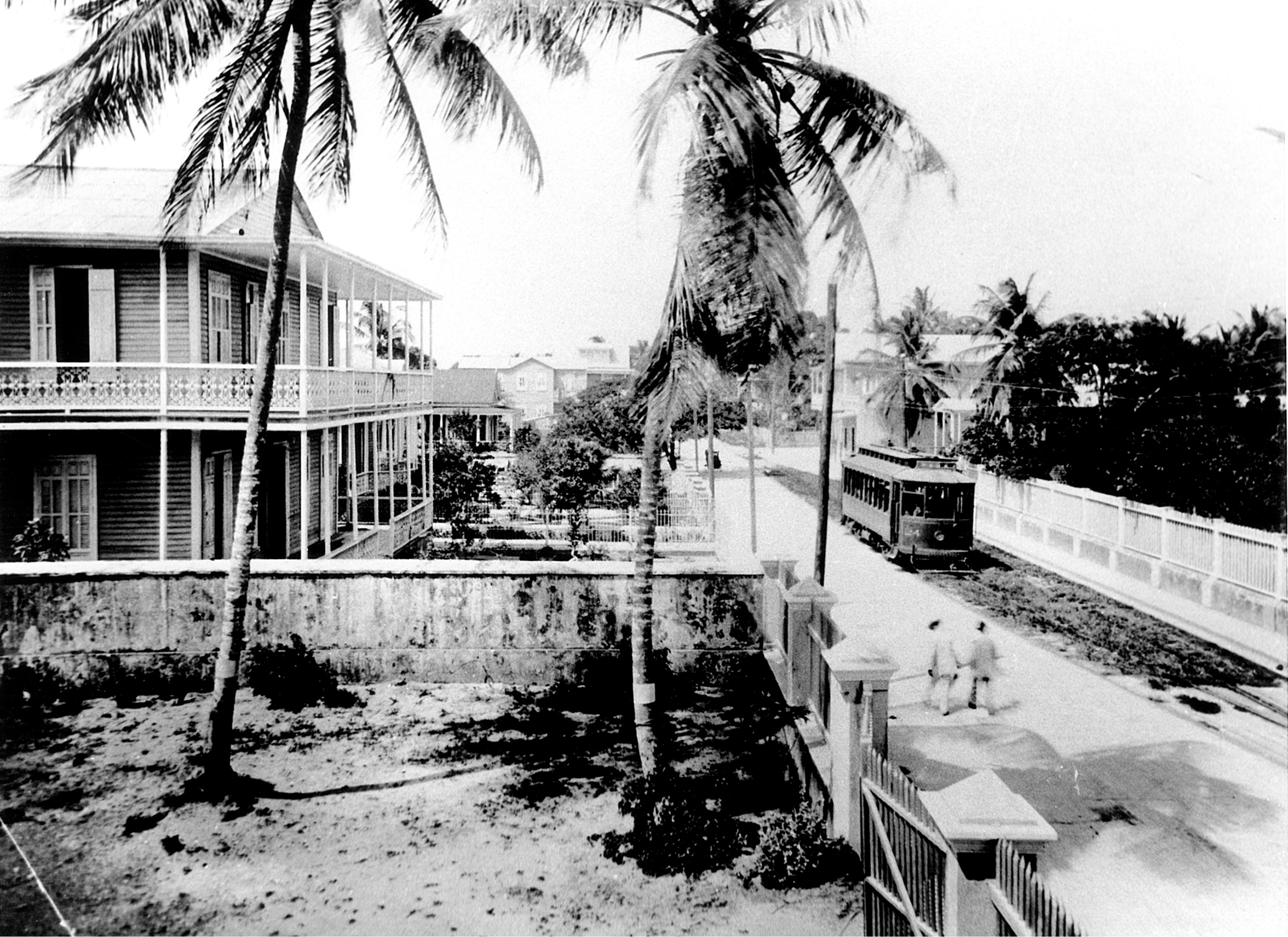 San Juan Tramway down Ponce de León in Miramar, Santurce, Puerto Rico